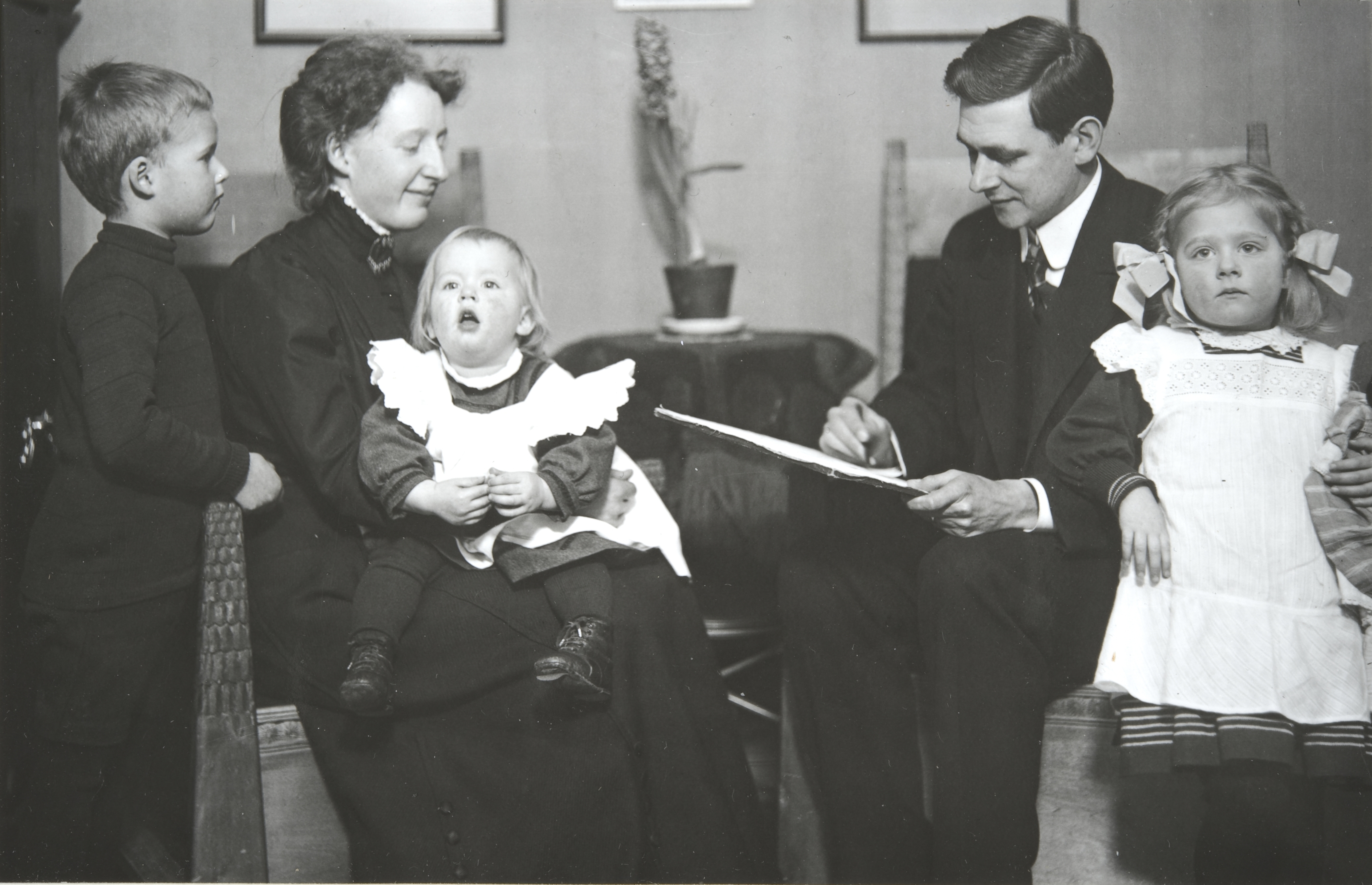 Photograph of the Finnish architect Valter Jung with his family: from the left Bo, Märta, Brita, Valter and Dora Jung.